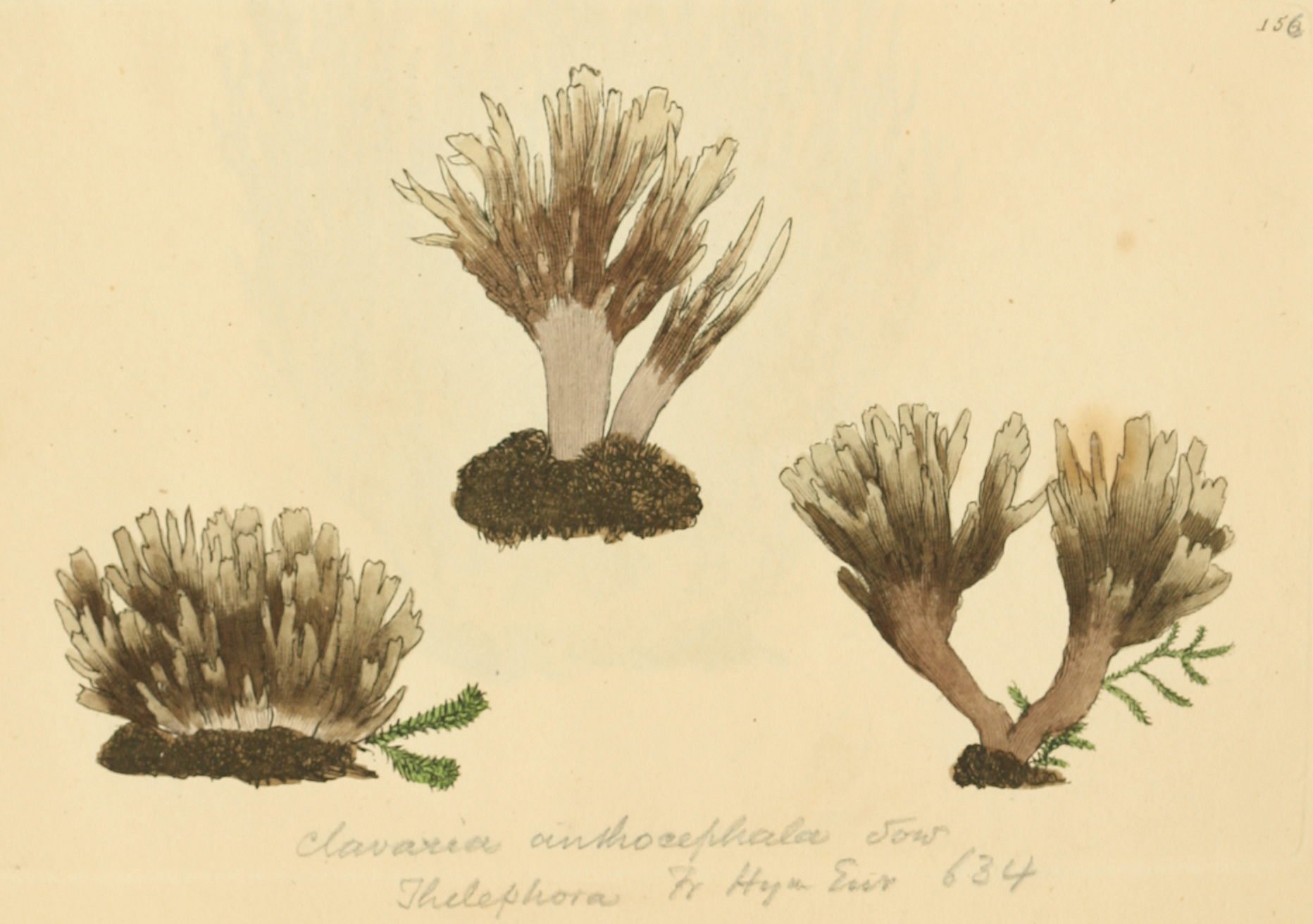 This is a plate from James Sowerby's Coloured Figures of English Fungi or Mushrooms.